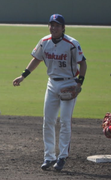 Shingo Kawabata, infielder of the Tokyo Yakult Swallows, at Urasoe Municipal Baseball Stadium.